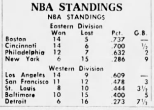 An example of league standings in professional basketball, including a games behind column, for the National Basketball Associated (NBA) as printed in The Minneapolis Star newspaper on November 29, 1965.